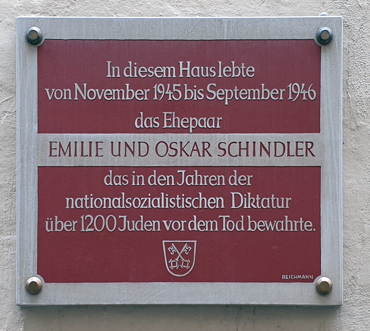 Memorial plaque, Emilie Schindler andOskar Schindler, Watmarkt 5, Regensburg, Deutschland